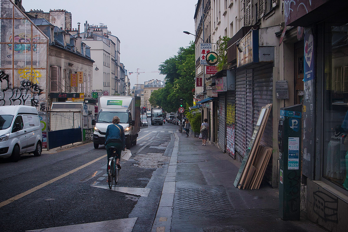 Rue de Belleville in the Parish Quarter Belleville